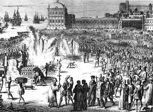 inquisition in terreiro do paco